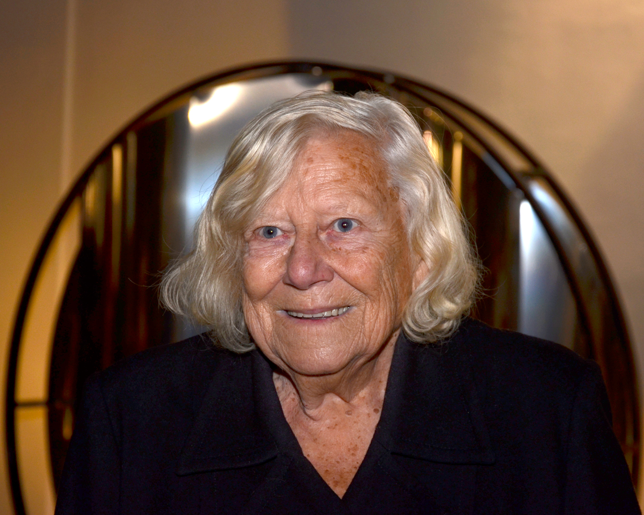 Alena Šrámková (2018)